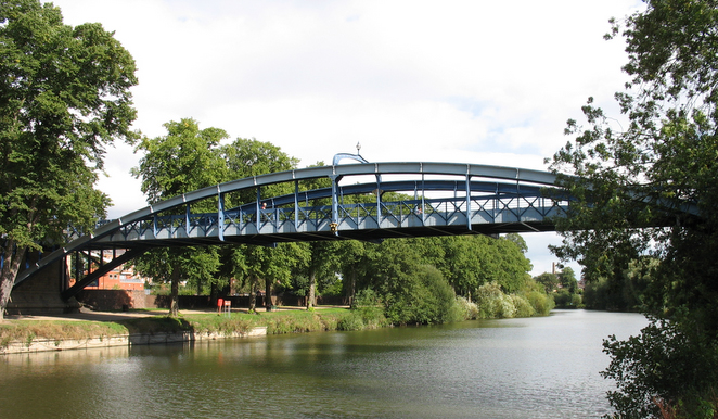 The Kingsland Toll Bridge, located in Shrewsbury. Photo taken by Chris Bayley using a Canon Powershot A610 (1-9-06)